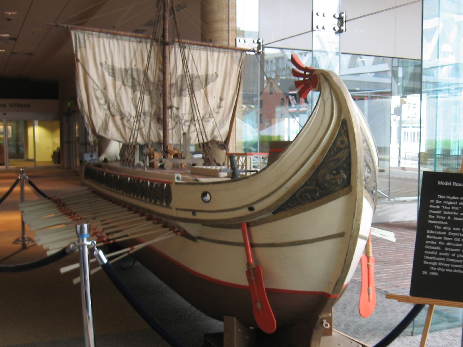 Plaque reads: This Replica of an ancient Roman trireme is one of the original ships used in the movie "Ben Hur." It was given to Mayor William Donald Schaefer and the citizens of Baltimore by the Peter S. Atsaides Family, owners of Kibby's Restaurant. The ship was turned over to the Vocational Educational Department for needed renovation. Students there did reconstruction and repair work under the direction of instructor Algimantas K. Grintalis. Accurate detailing was accomplished by careful study of photographs from U.A./M.G.M Distribution Company and other materials acquired through library research. The ship was dedicated with a ceremony on April 28, 1986.